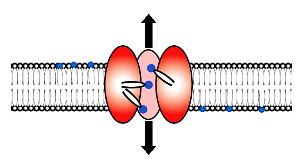 Image is a representation of the membrane protein scramblase.Author: oroboros